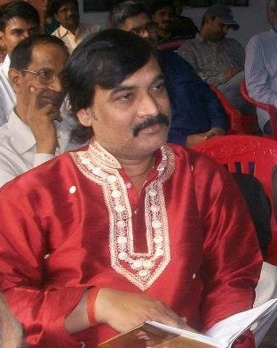 hi:Ravindra prabhat in ijjatpuram Book released ceremony